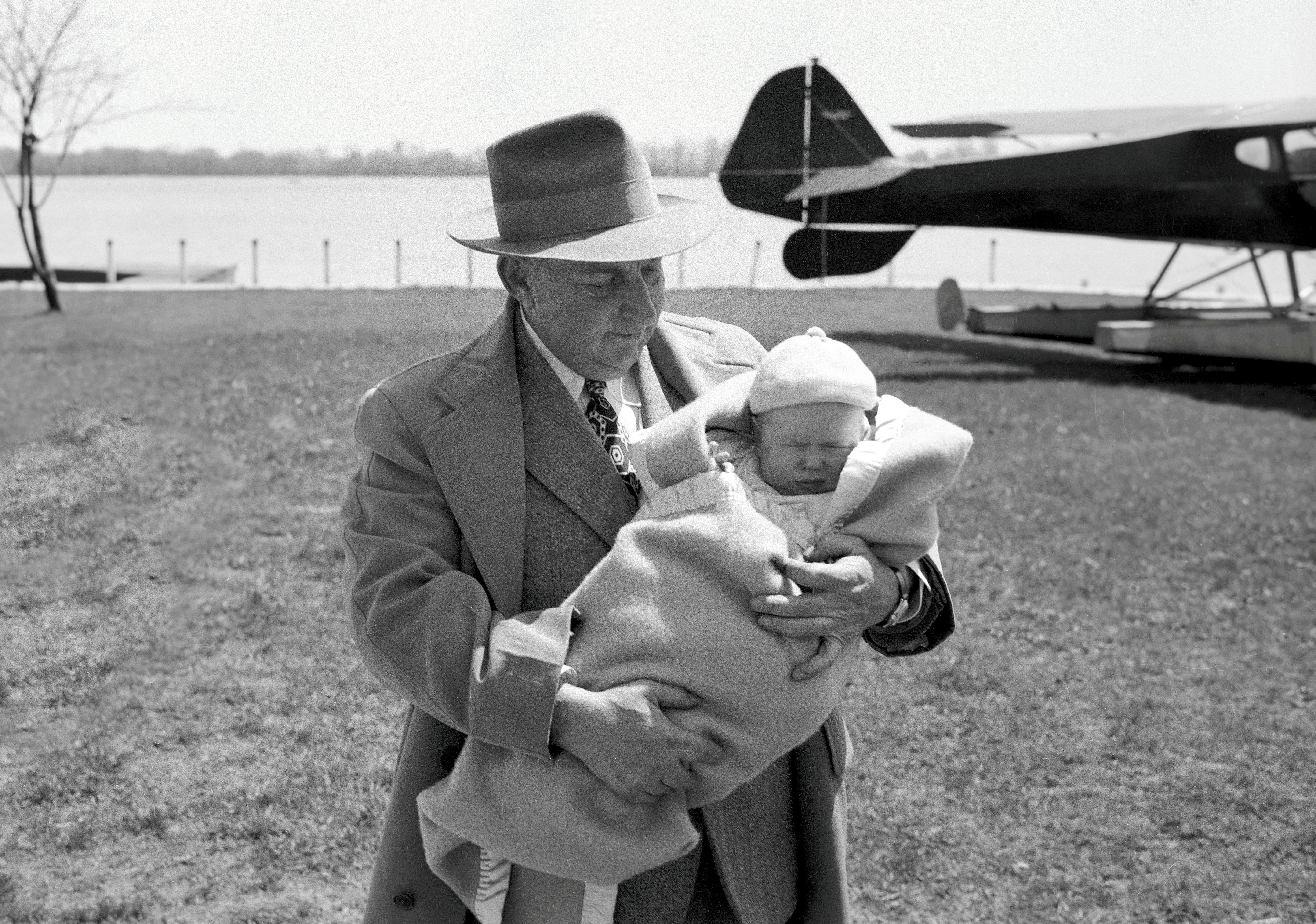 Harry G. Garland with son Harry T. Garland outside their home on the grounds of Garland's Seaplane Base and Flight School on the Detroit River in 1947.